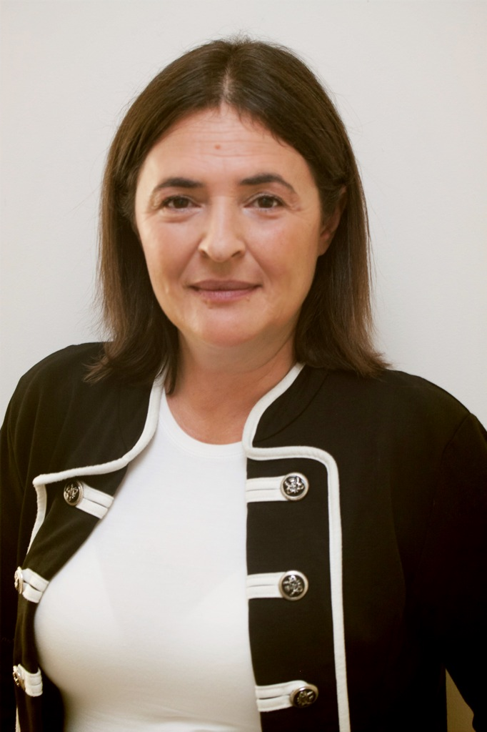 MK Nino Abesadze, Kadima Party